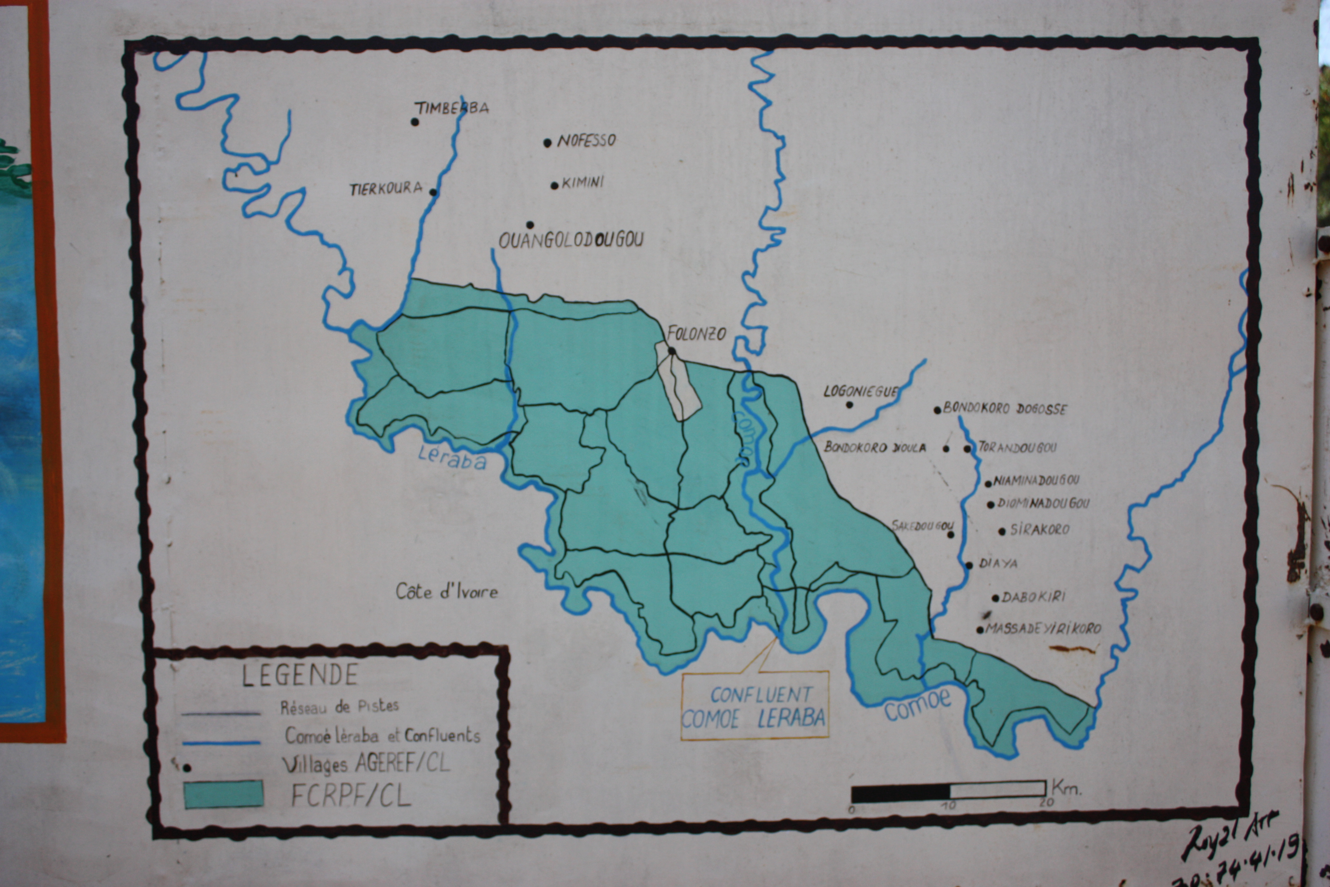 Hand painted map of Comoe-Leraba reserve, Burkina Faso